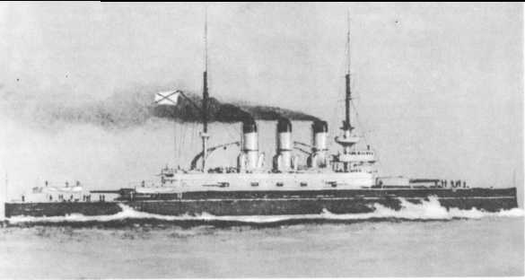 Imperial Russian battleship Kniaz' Potiomkin-Tavricheskii.